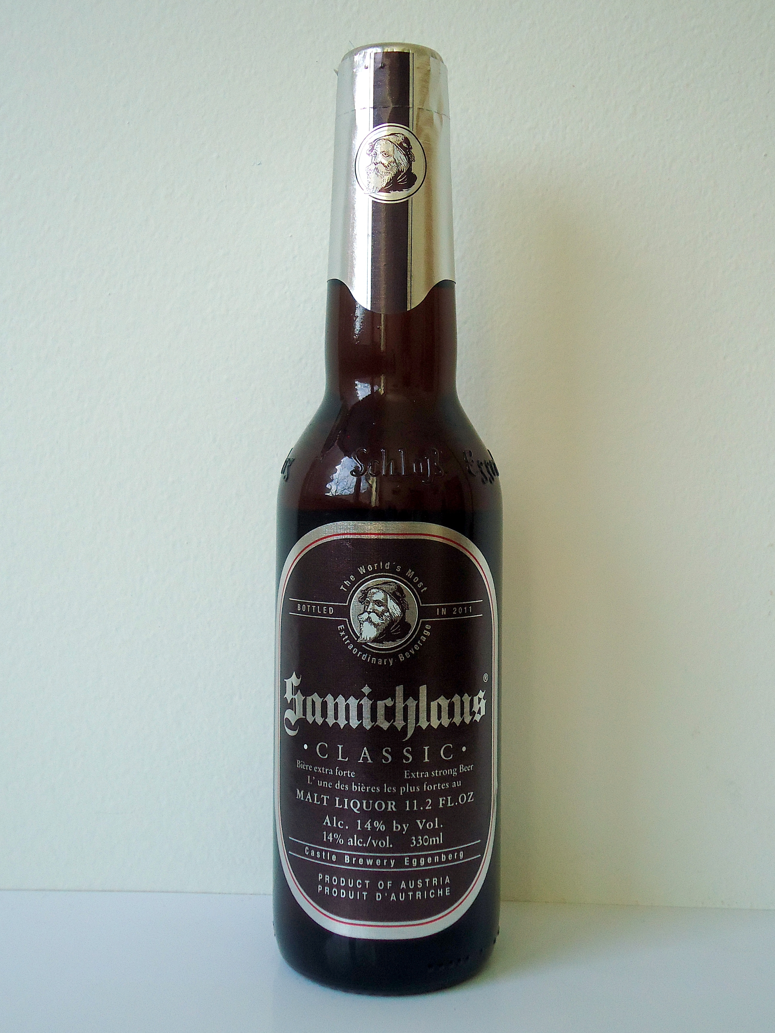 Samichlaus beer - 2011